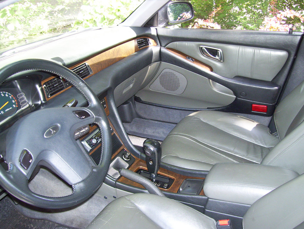 Mitsubishi Sigma 3.0 DOHC, interieur